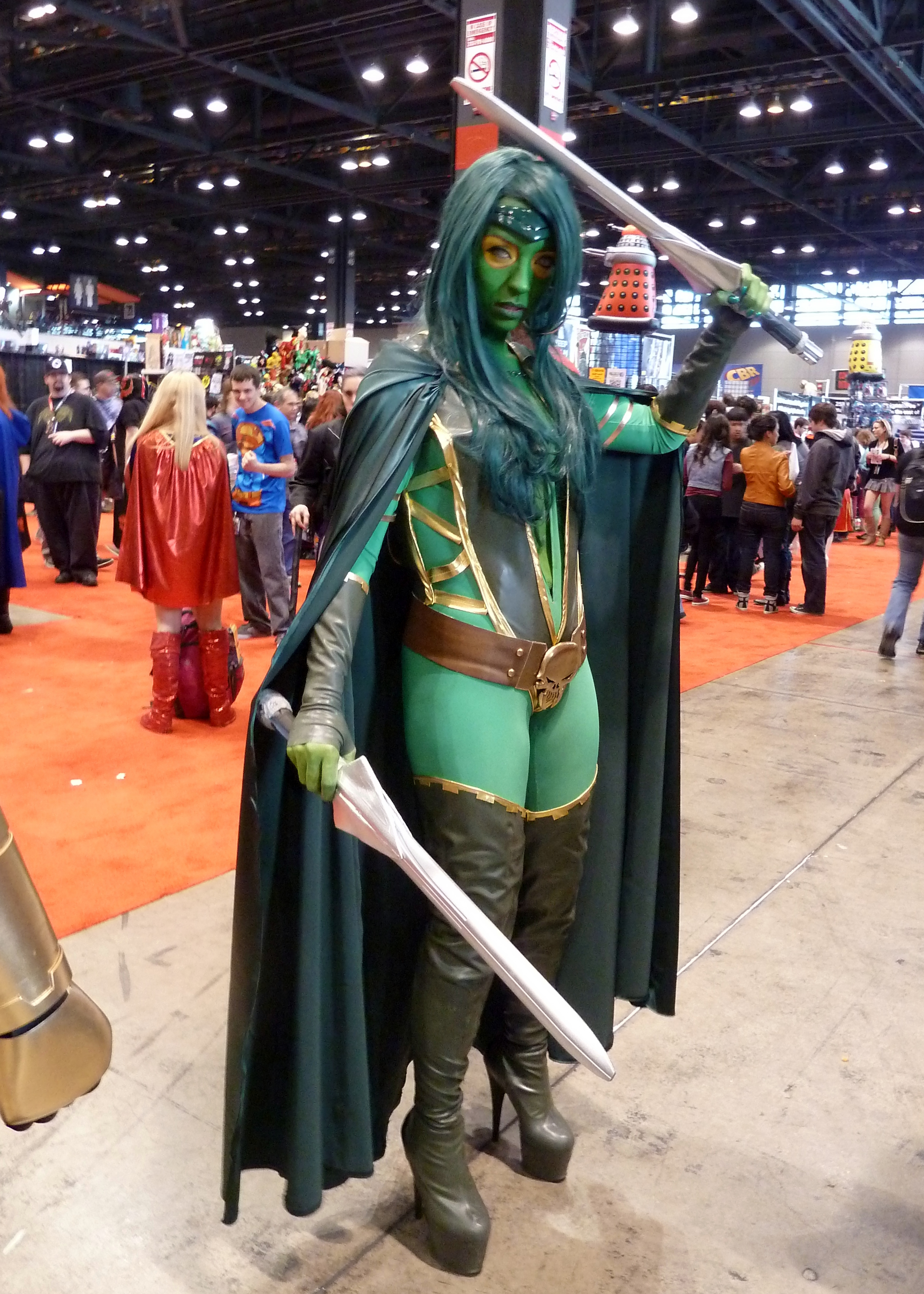 Cosplay of Gamora, a member of the Guardians of the Galaxy, a character of Marvel Comics